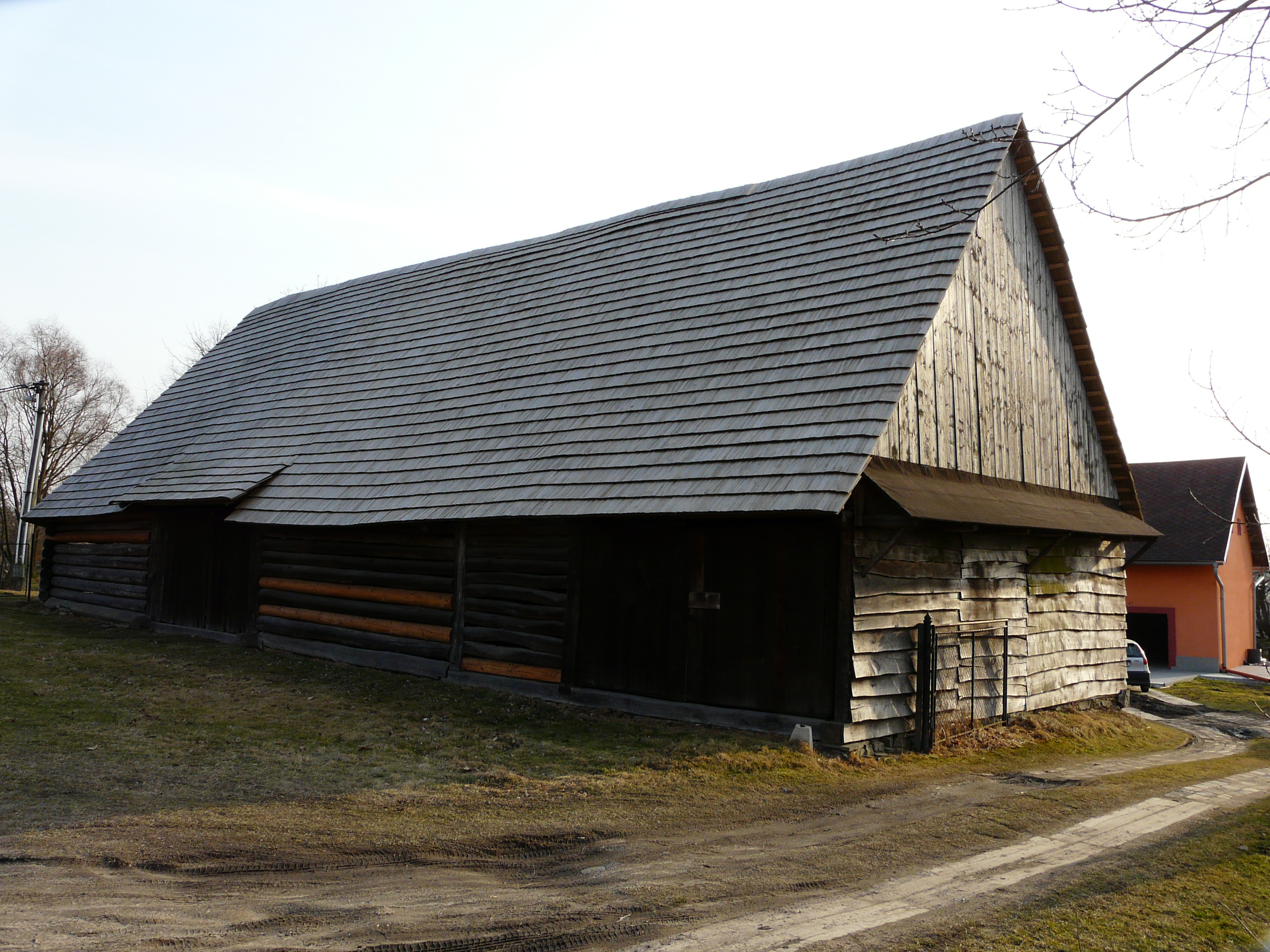 A Barn in Dolní Lutyně, Karviná District, Moravian-Silesian Region, Czech Republic